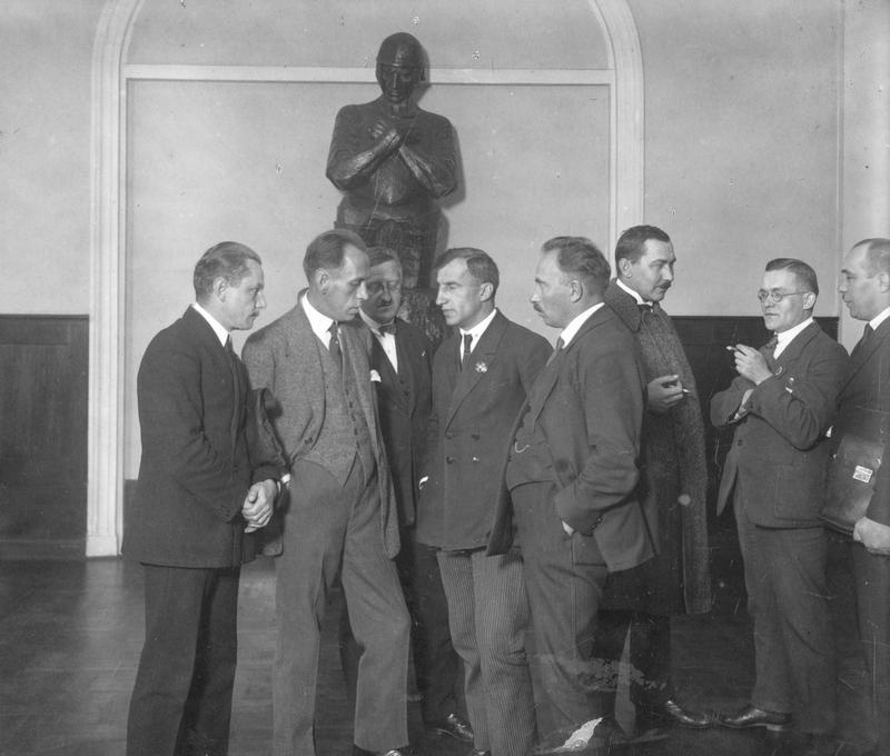 Members of parliamentary club PSL "Wyzwolenie" in Sejm.